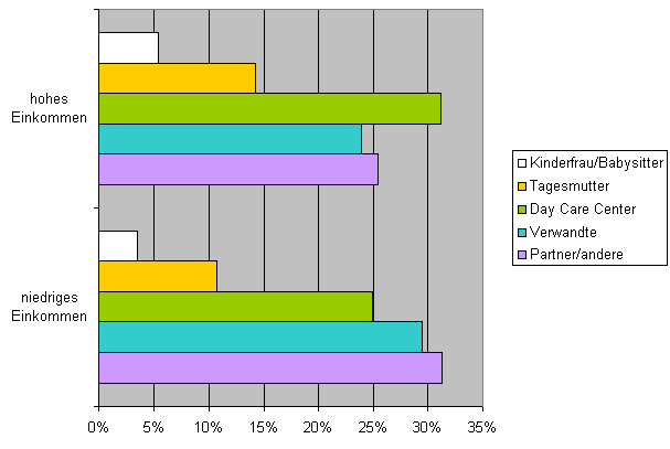 Child care arrangements for children under age 5 with employed mothers (by income); low income is defined as below 200% of the federal poverty level; source of data: [1]